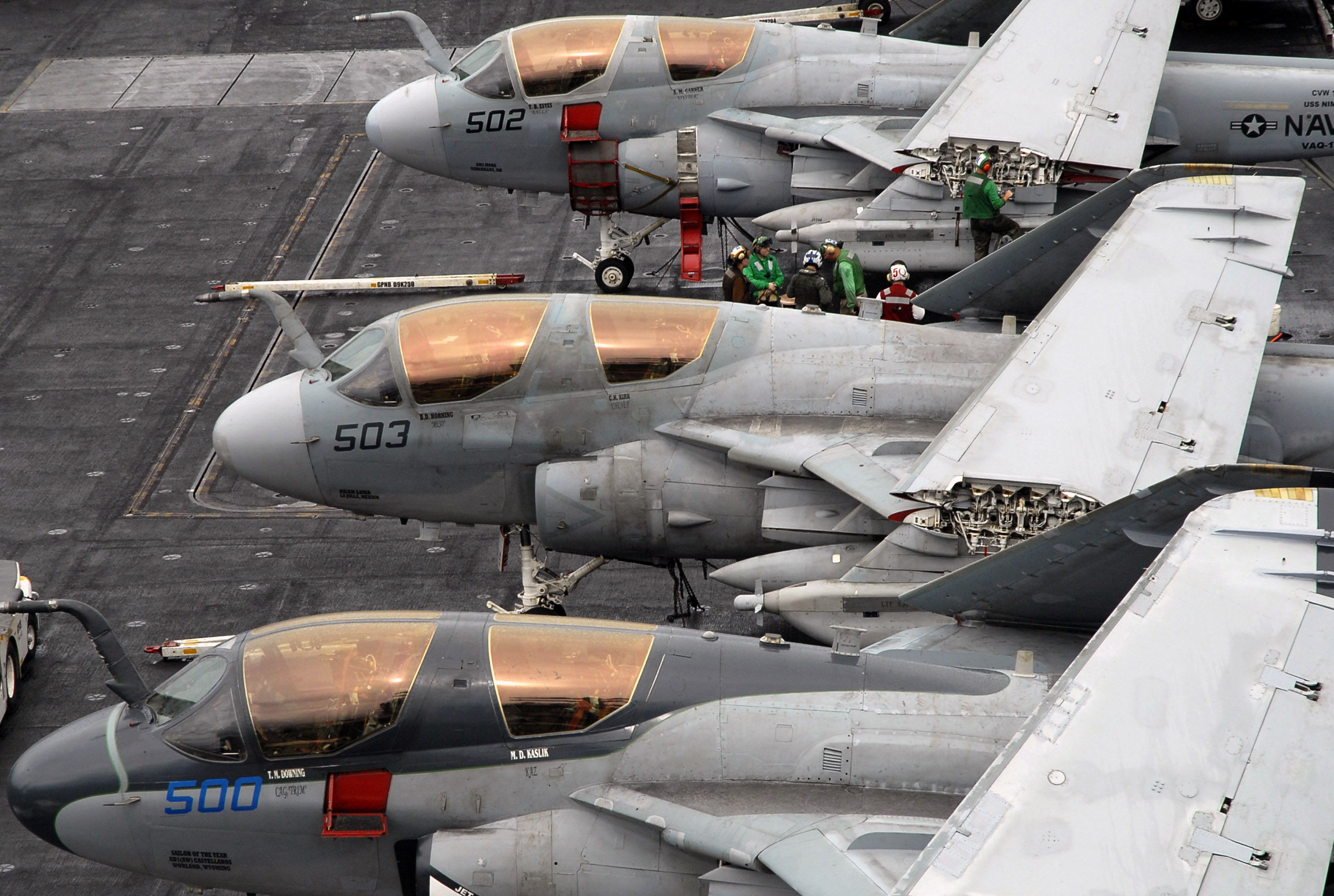 PACIFIC OCEAN (Aug. 6, 2007) - Sailors assigned to the "Black Ravens" of Electronic Attack Squadron (VAQ) 135, perform last minute maintenance on an EA-6B Prowlers before flight operation on the flight deck of the nuclear-powered aircraft carrier USS Nimitz (CVN 68). The Nimitz Strike Group and embarked Carrier Air Wing (CVW) 11 are deployed in the U.S. 7th Fleet area of operation. U.S. Navy photo by Mass Communication Specialist Seaman David L. Smart (RELEASED)